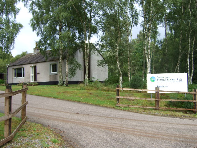 The entrance lodge at the DEFRA Centre for Ecology and Hydrology, Brathens, by Banchory, Aberdeenshire